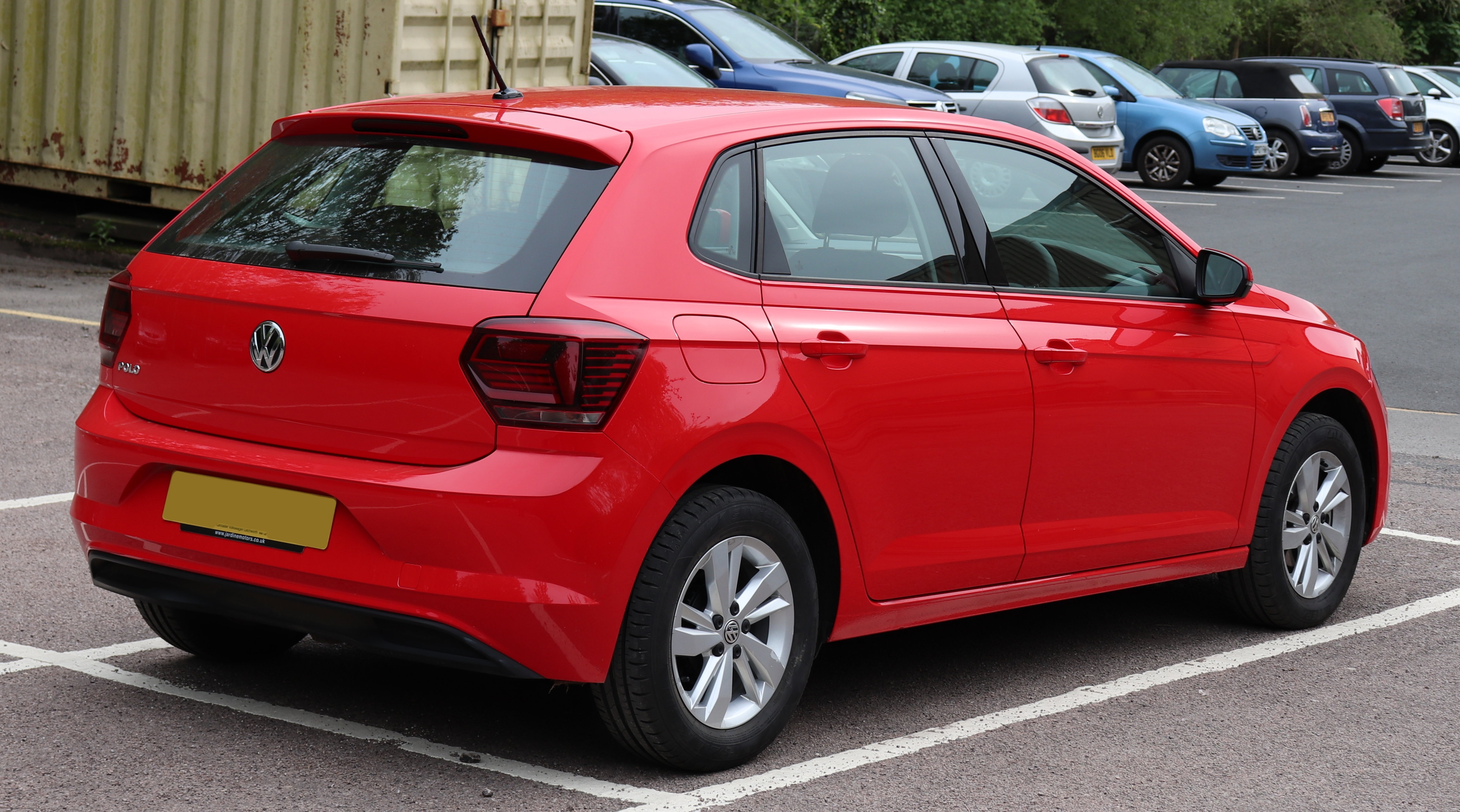 2018 Volkswagen Polo SE 1.0 Rear Taken in Leamington Spa